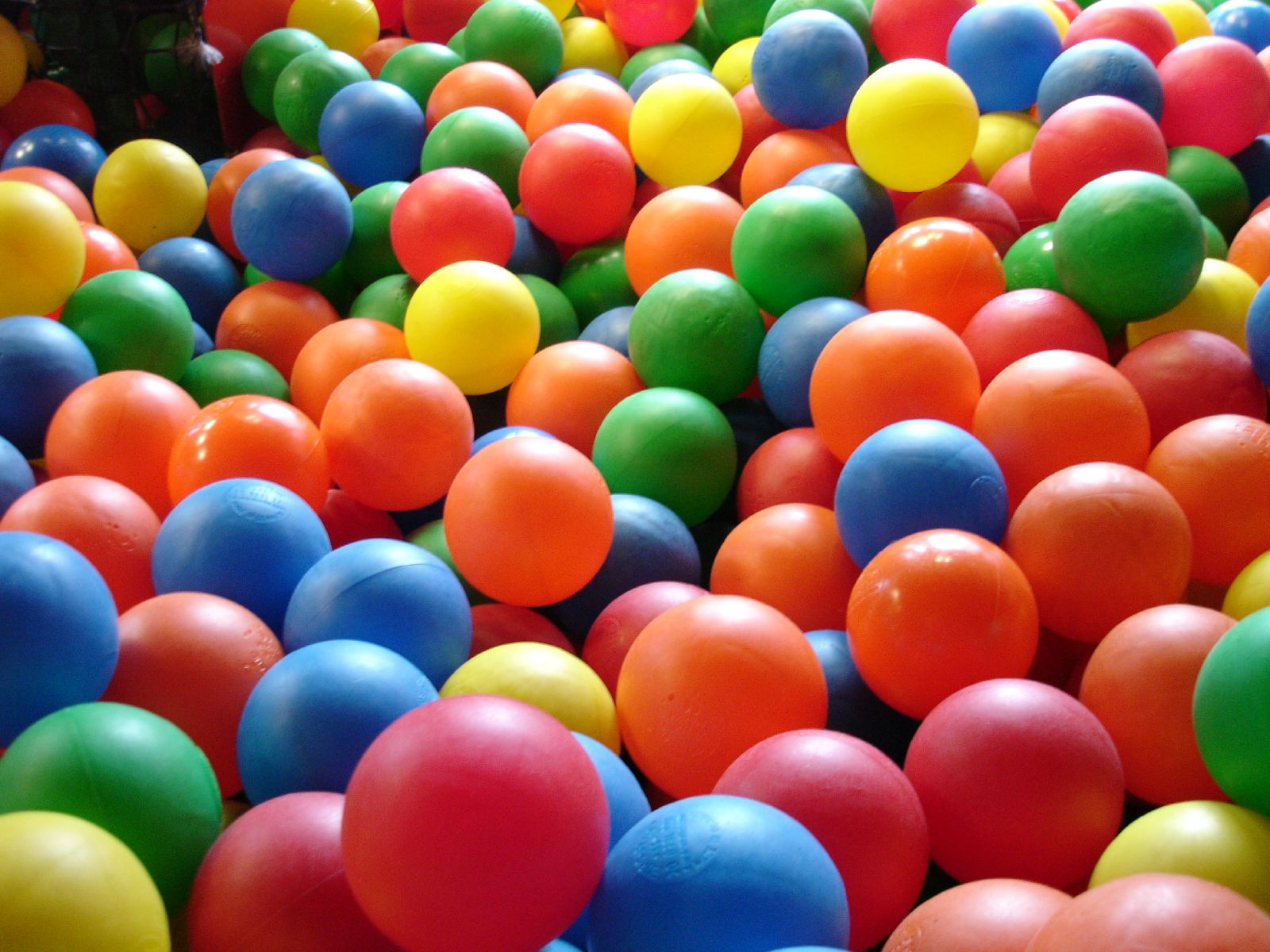 Multi-coloured plastic balls, as seen from a child's level in a play pen at McDonald's in Val-d'Oise , Ile-de-France. Boy playing with the balls.At children's level